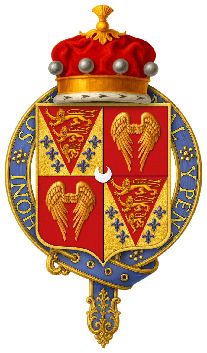 Coat of arms of Sir Thomas Seymour, 1st Baron Seymour of Sudeley, KG BURKE, Sir Bernard, The General Armory of England, Scotland, Ireland, and Wales: Comprising a Registry of Armorial Bearings from the Earliest to the Present Time, London: Harrison & sons, 1884. “Seymour (Baron Seymour, of Sudley, attainted 1549; Thomas Seymour, Lord High Admiral of England, third brother of Edward, first Duke of Somerset, the Lord Protector, was so created 1547, m. Katharine Parr, last Queen of Henry VIII., and was beheaded). Same Arms, &c. as the Duke of Somerset [viz.Quarterly, 1st and 4th, or, on a pile gu. betw. six fleur-de-lis az. three lions of England, being the coat of augmentation granted by Henry VIII. on his marriage with Jane Seymour; 2nd and 3rd, gu. two wings conjoined in lure or, for Seymour.]”